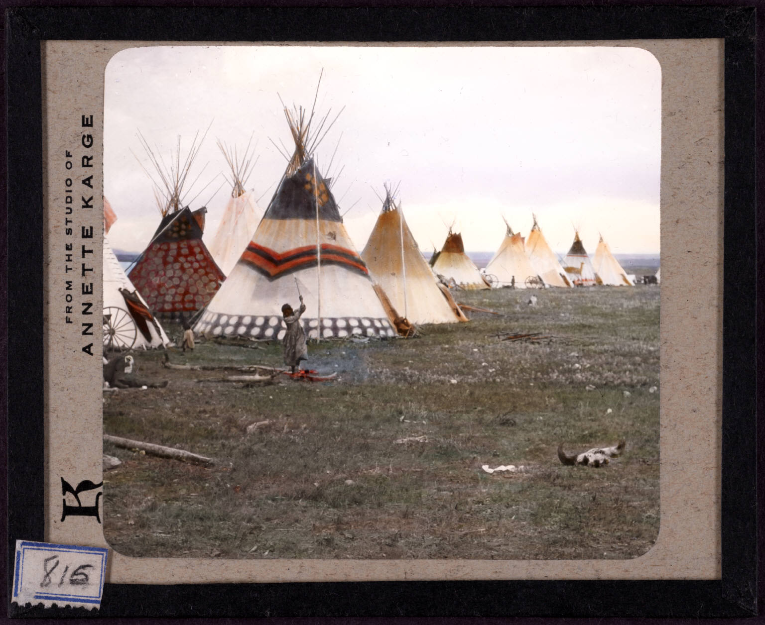 Author/Creator: McClintock, Walter, 1870-1949. Karge, Annette. Date: undated Part of: Walter McClintock papers, 1874-1946. Physical Description: 1 lantern slide hand col. 8 x 10 cm. Folder or box number: Lantern slides box 9 Subjects: Indians of North America. Siksika Indians. Montana. Genre/Form: Lantern slides Cite as: Yale Collection of Western Americana, Beinecke Rare Book and Manuscript Library Repository: Beinecke Rare Book and Manuscript Library, Yale University Bibliographic Record Number: 2008194 Call Number: WA MSS S-1175 View our Record: Permalink